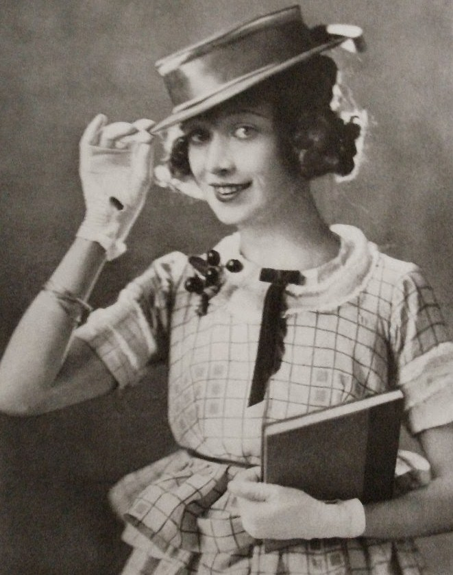 Esther Howard in the Broadway's Musical The Sweetheart Shop - publicity still (cropped)